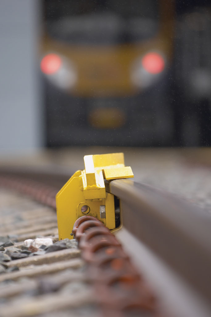 Raised derailer protecting a road from incoming train